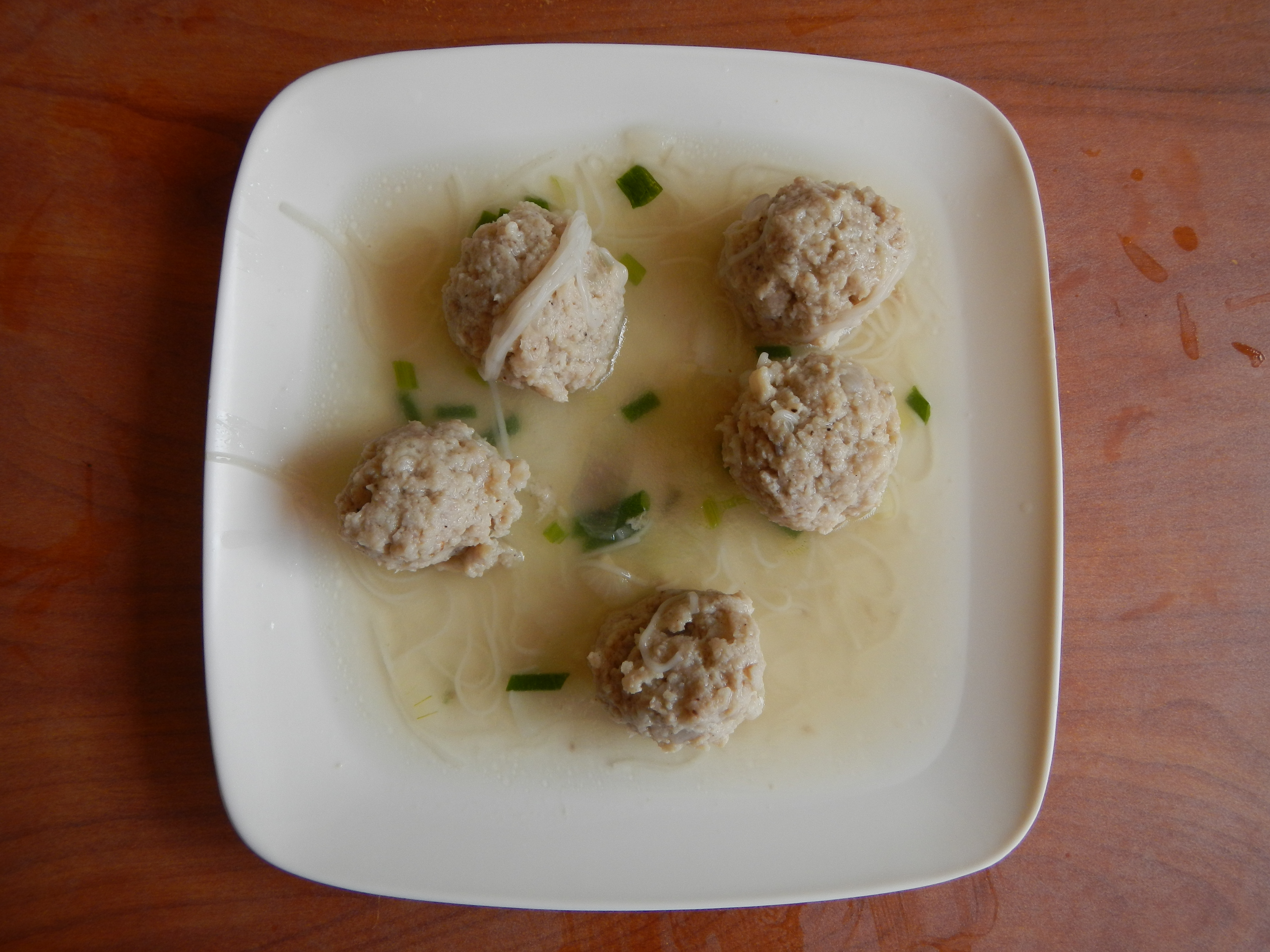 Miswa bola bola